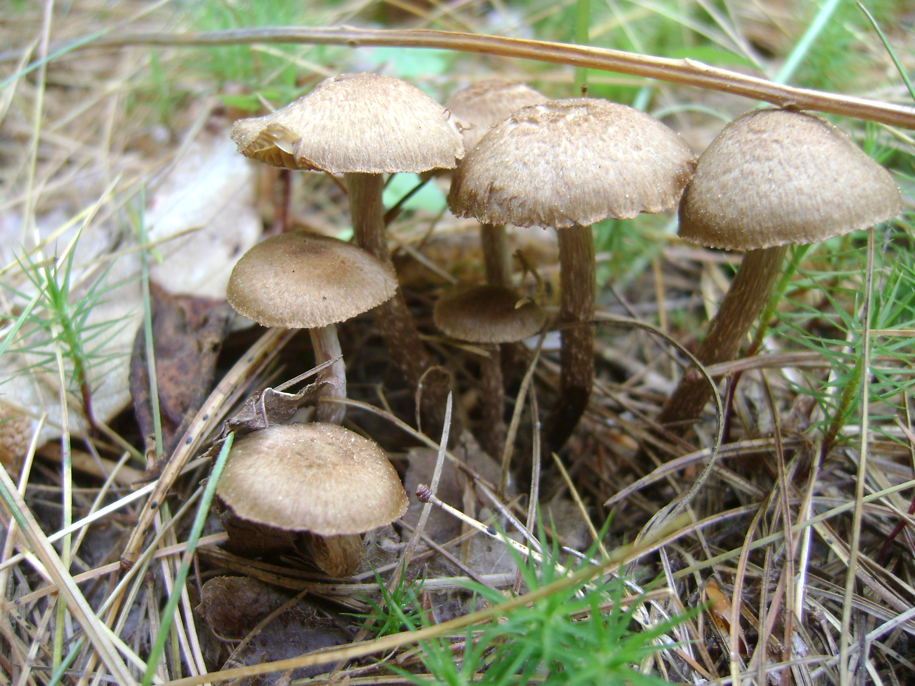 Inocybe calamistrata (Fr.) Gillet Location: Oxford County, Maine For more information about this, see the observation page at Mushroom Observer.